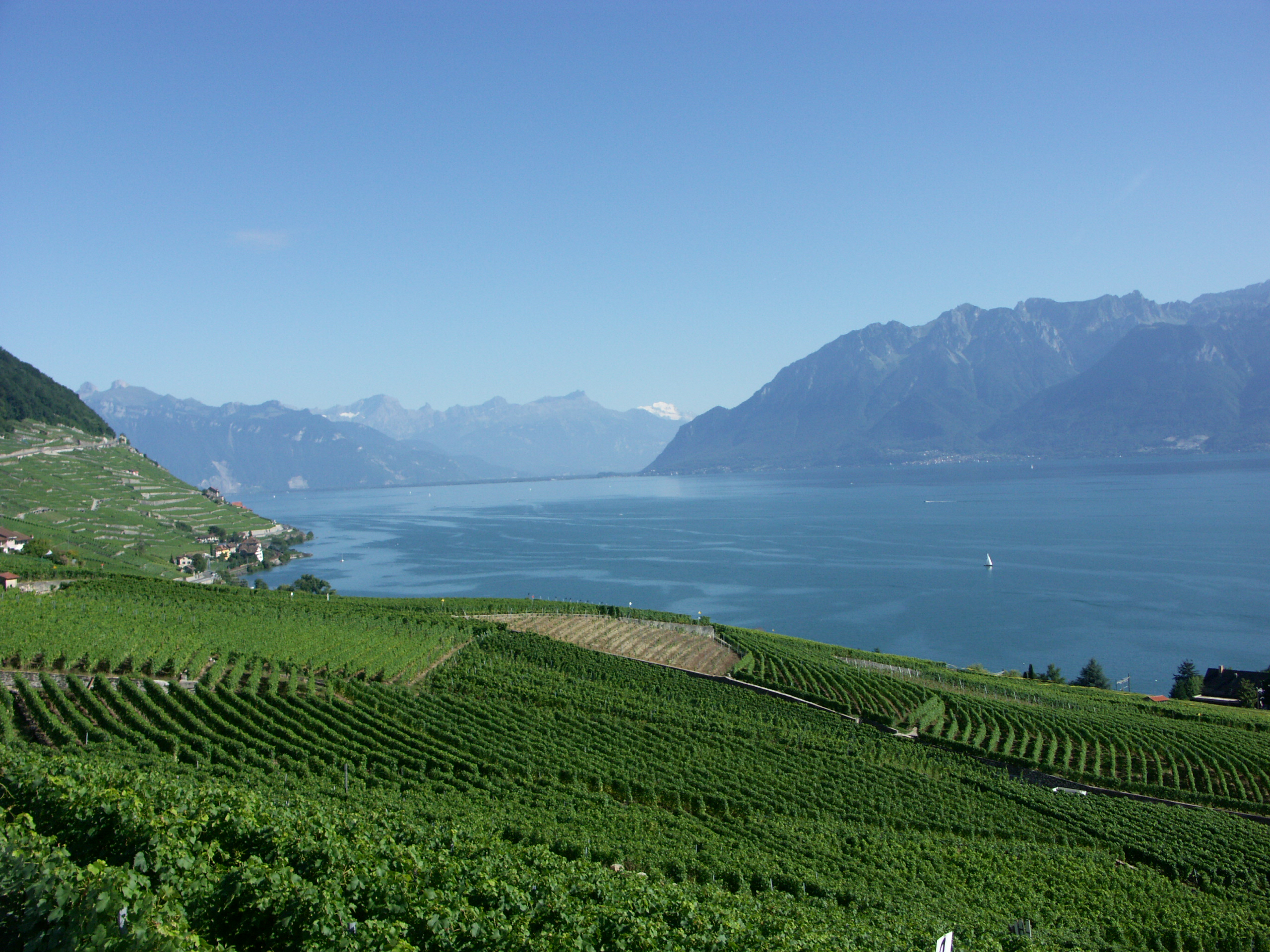 Leman lake (geneva lake), photo taken in the Lavaux (UNESCO) and the Alpes